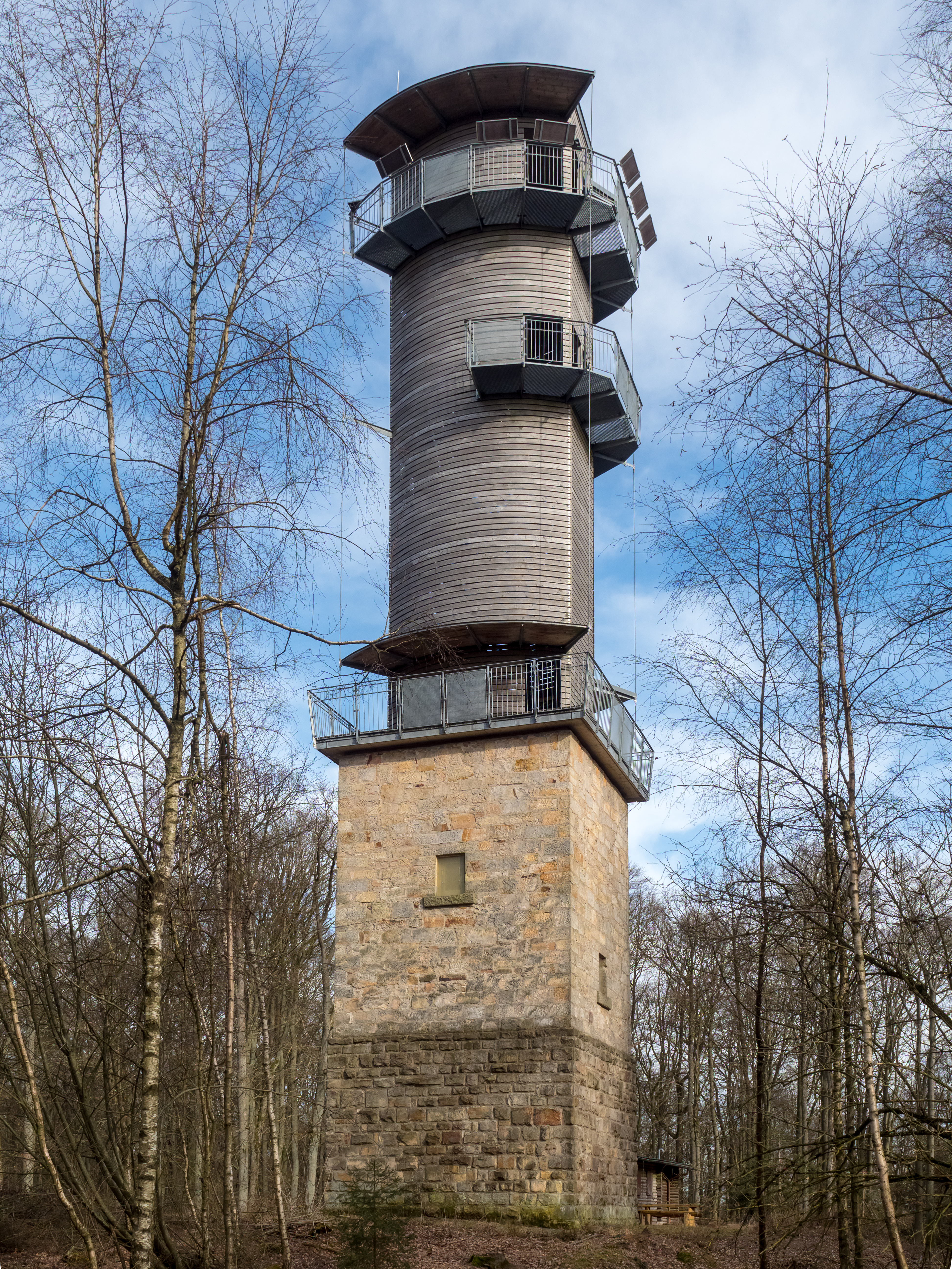 Observation tower on the Schwedenschanze near Hofheim in the Haßberge district